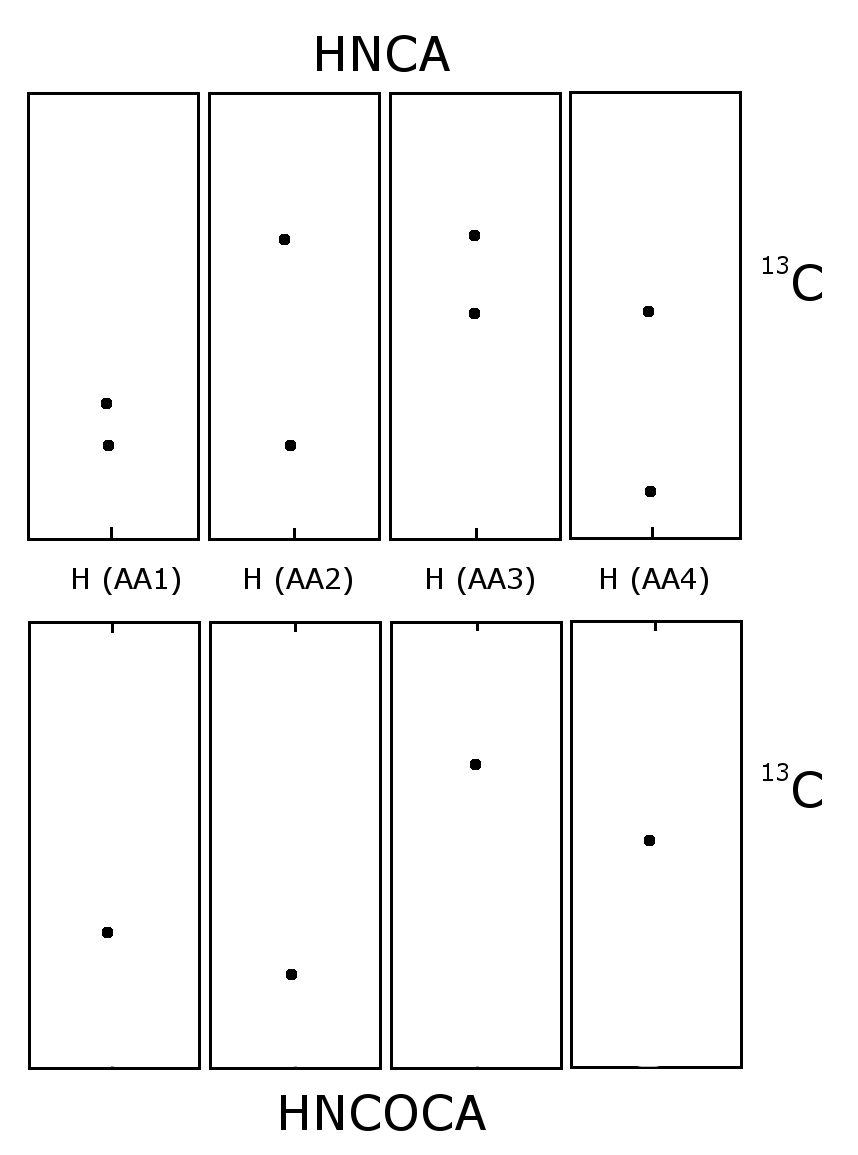 Created with the GIMP by User:Kjaergaard